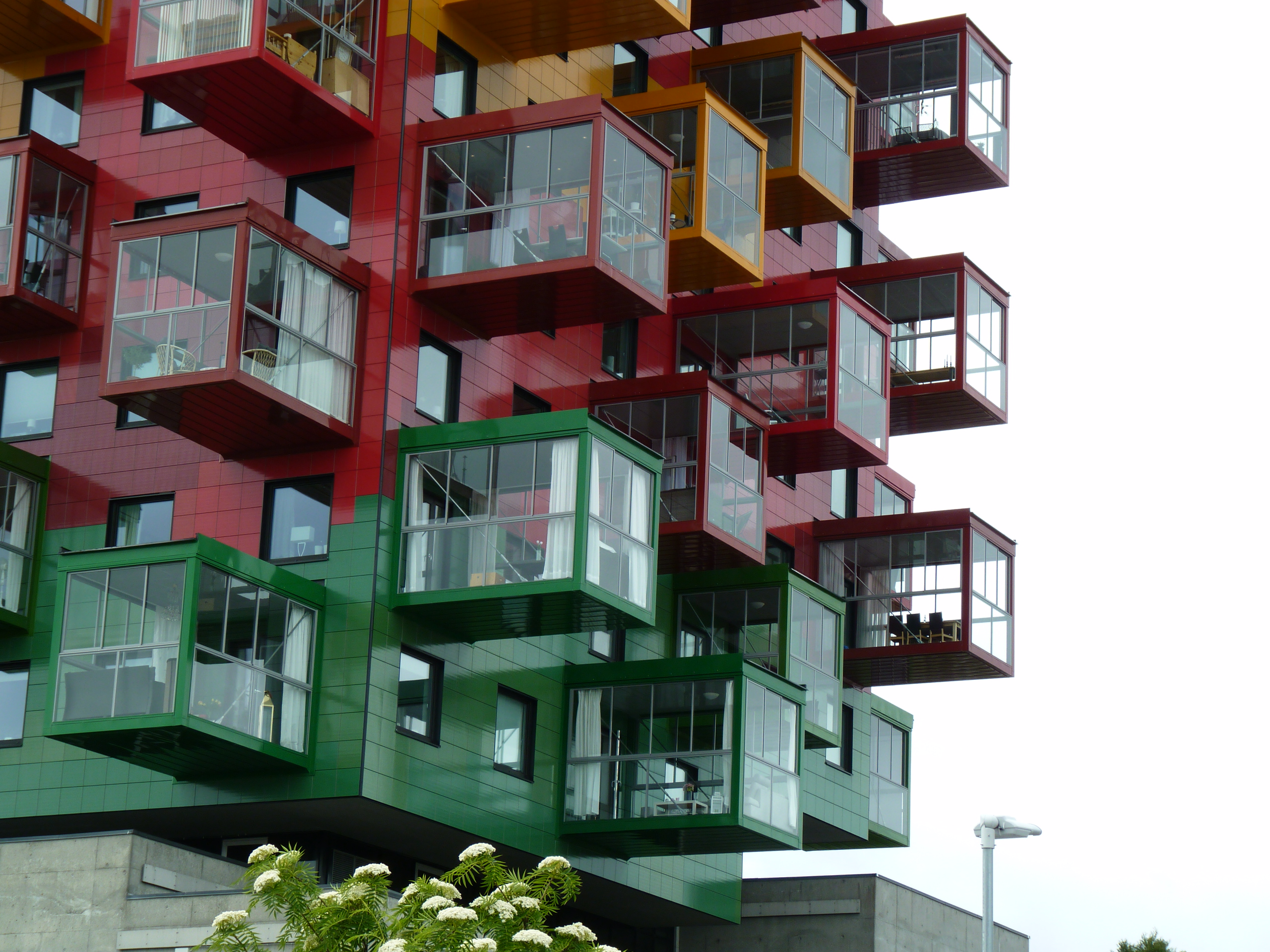 Ting1 i Örnsköldsvik